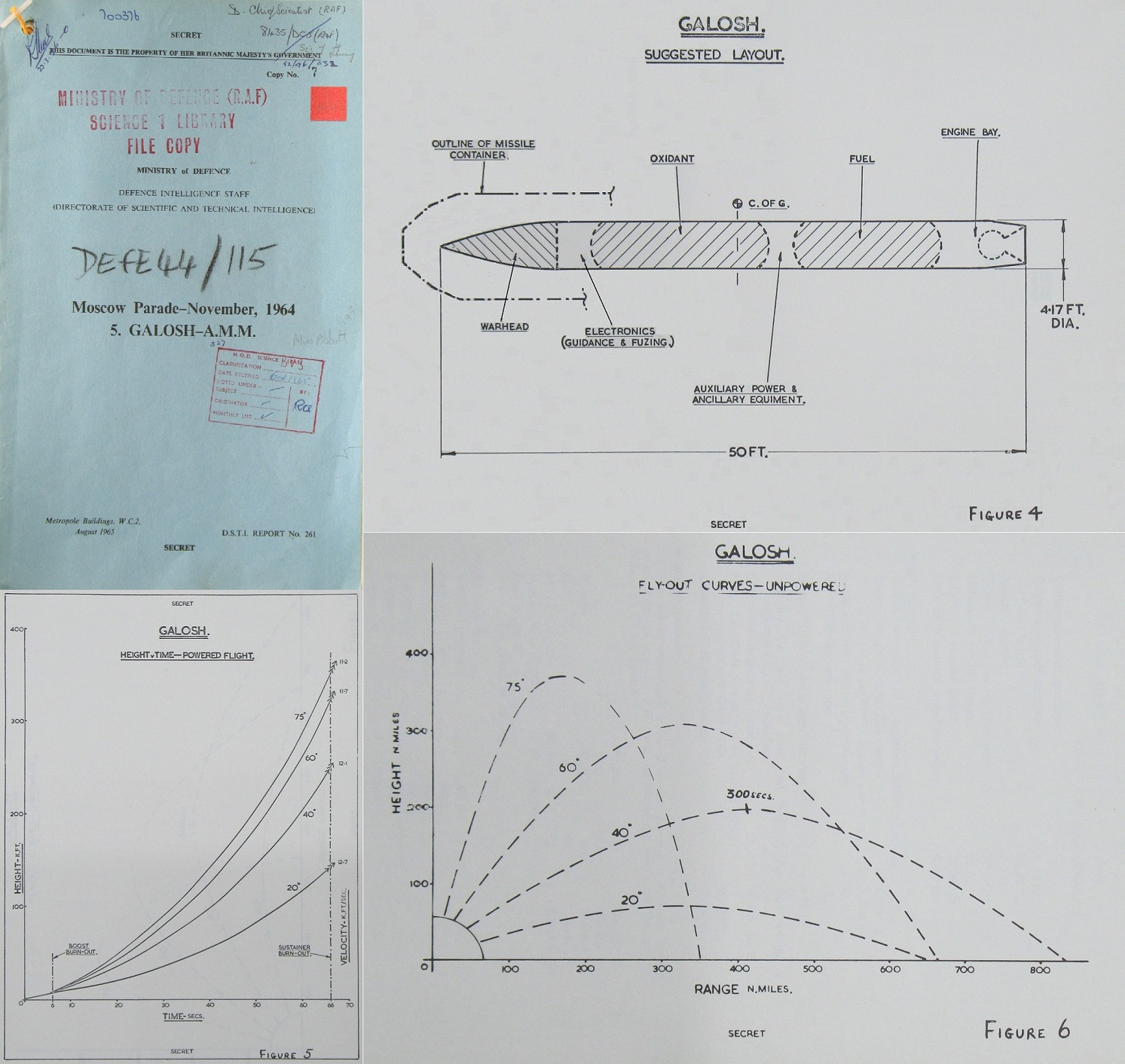 Data relating to a Soviet Galosh exo-atmospheric ABM. Photographs from a declassified UK Ministry of Defence folder published in DEFE 44/115 available to view in The National Archives, Kew, London. The drawings were created by UK Ministry of Defence draughtsmen based on intelligence, personal observation by Western Allied embassy military attachés, from photographs by them in the course of their duty while observing a Moscow Red Square May Day Military Parade 1964, and possibly from other intelligence sources. The National Archives file is no longer classified and is in the public domain. UK Crown Copyright expired after 50 years.